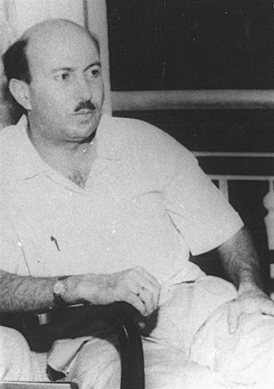 Wadie Haddad in Syria, around 1970